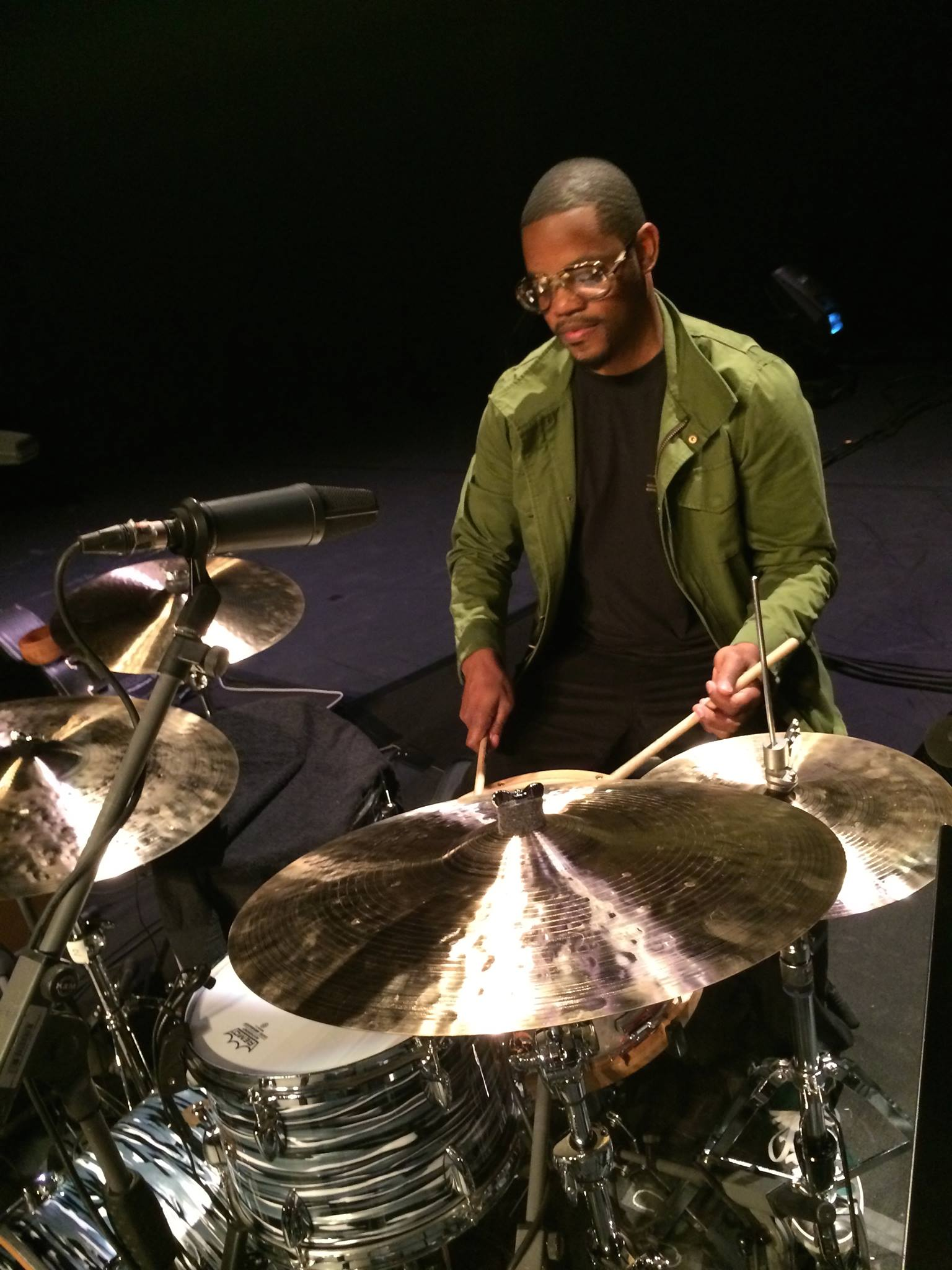 Karriem Riggins in Germany 2014